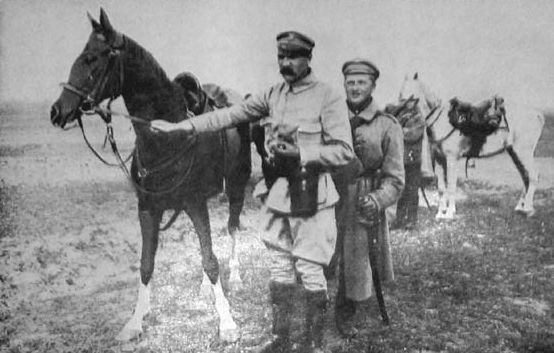 Józef Piłsudski (1867-1935) with his favourite horse, Kasztanka.